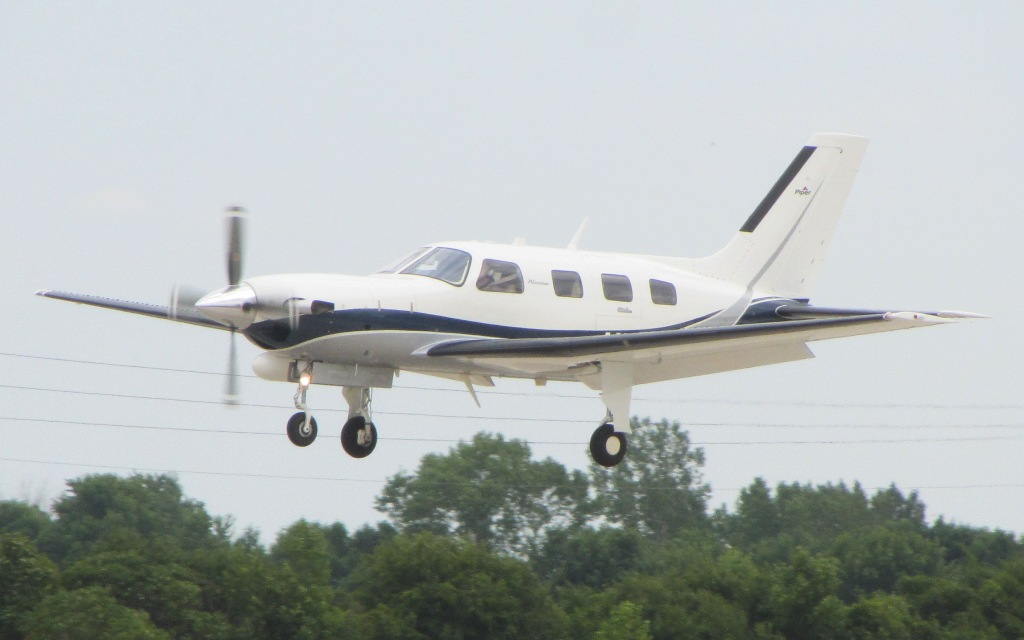 PA-46-500TP Malibu Meridian